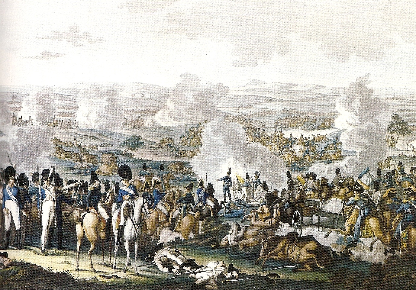 The Battle of Wagram (engraving)